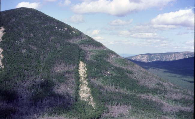 Mt. Coe from OJI